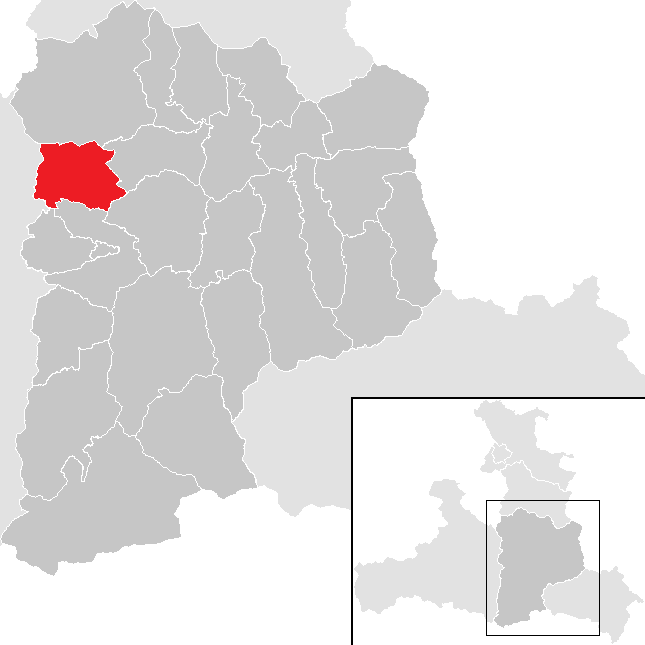 District Sankt Johann im Pongau